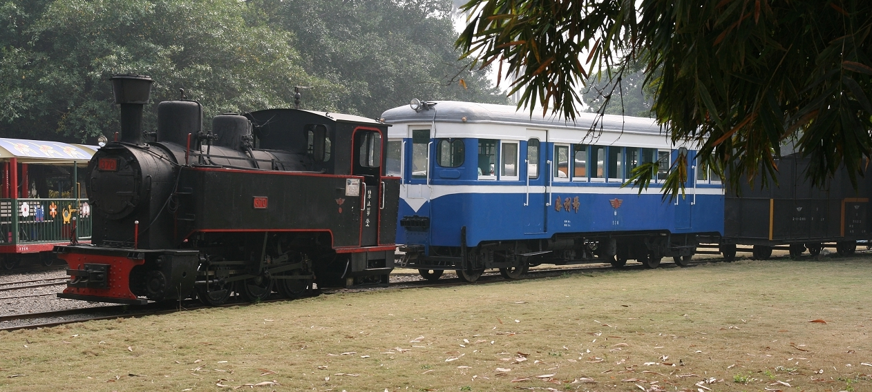 Taiwan Sugar Corporation Wushulin Sugar Refinery Plant